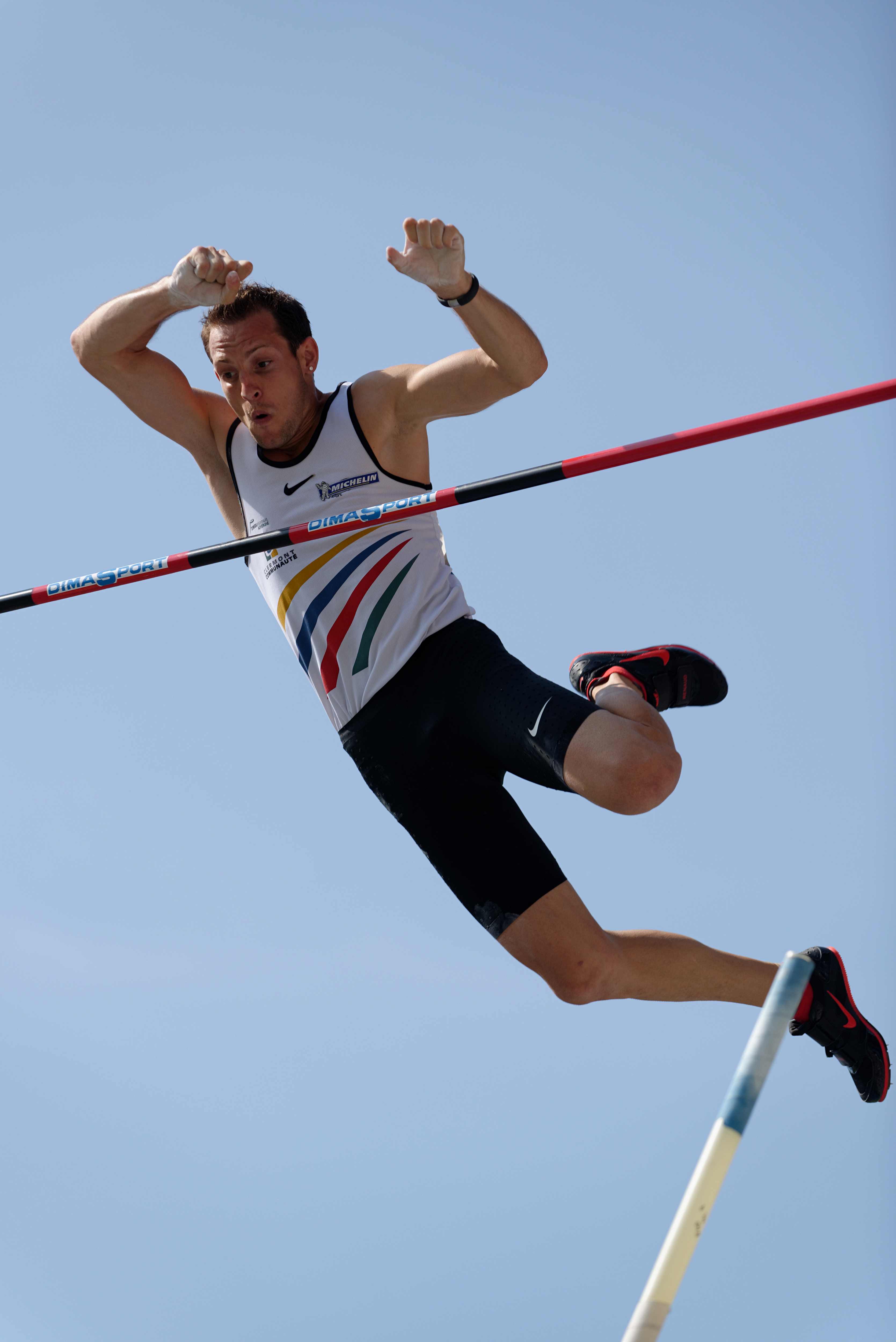 Renaud Lavillenie clears 5m95 in the men's pole vault final during the French Athletics Championships 2013 at Stade Charléty in Paris, 14 July 2013.